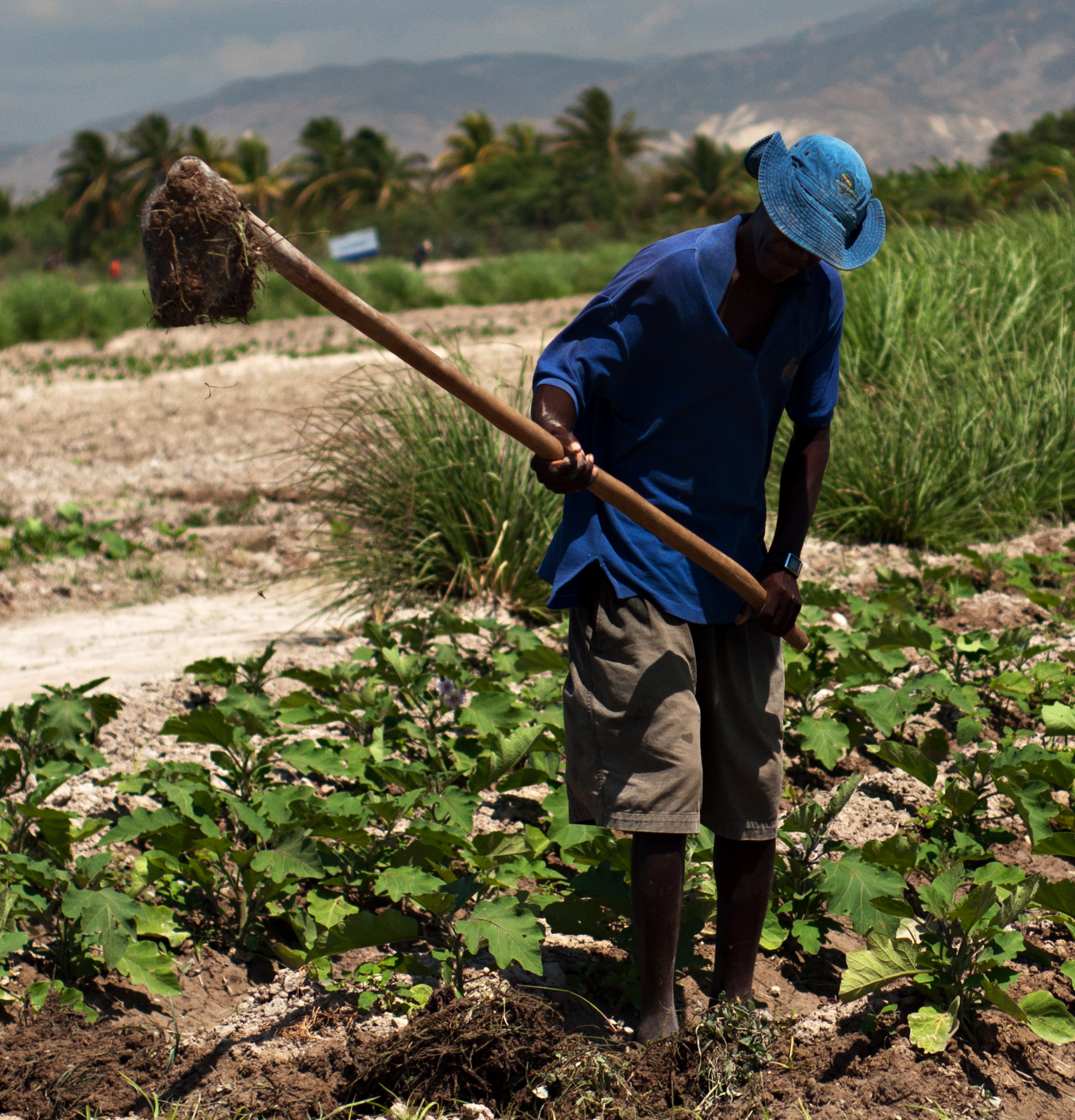 A Haitian farmer works the field at the USAID-funded Sustainable Rural Development Center in Bas Boan, Haiti. Photo by Ben Edwards, USAID.